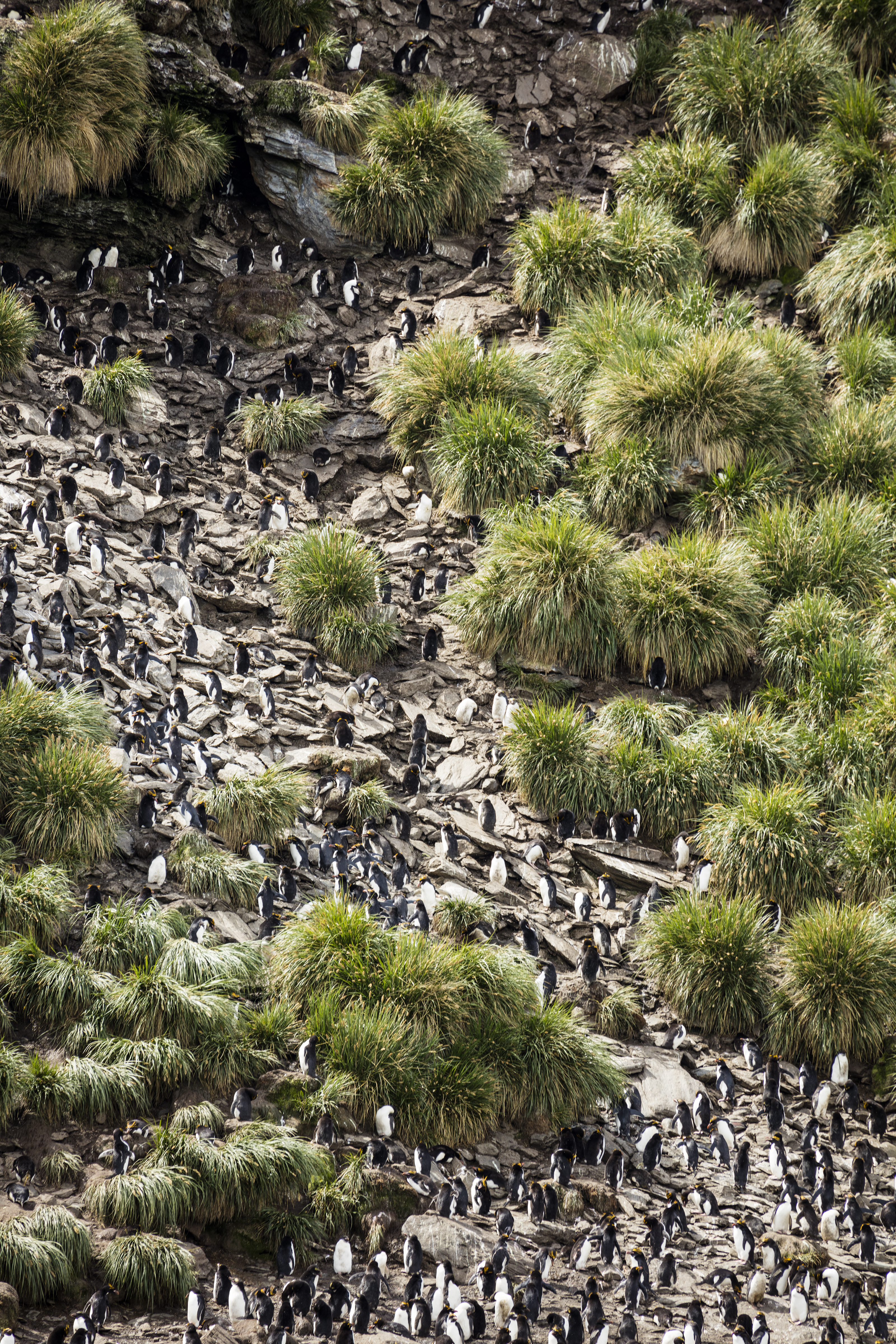 Climbing (Macaroni penguins (Eudyptes chrysolophus)), Cooper Bay, South Georgia. (Taken from a moving zodiac)